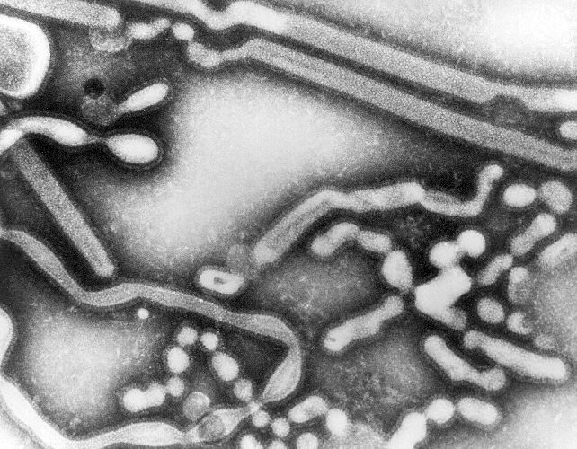 ID#: 279 Description: Transmission electron micrograph of influenza A virus, early passage. Content Providers(s): CDC/Dr. Erskine Palmer Copyright Restrictions: None - This image is in the public domain and thus free of any copyright restrictions. As a matter of courtesy we request that the content provider be credited and notified in any public or private usage of this image.